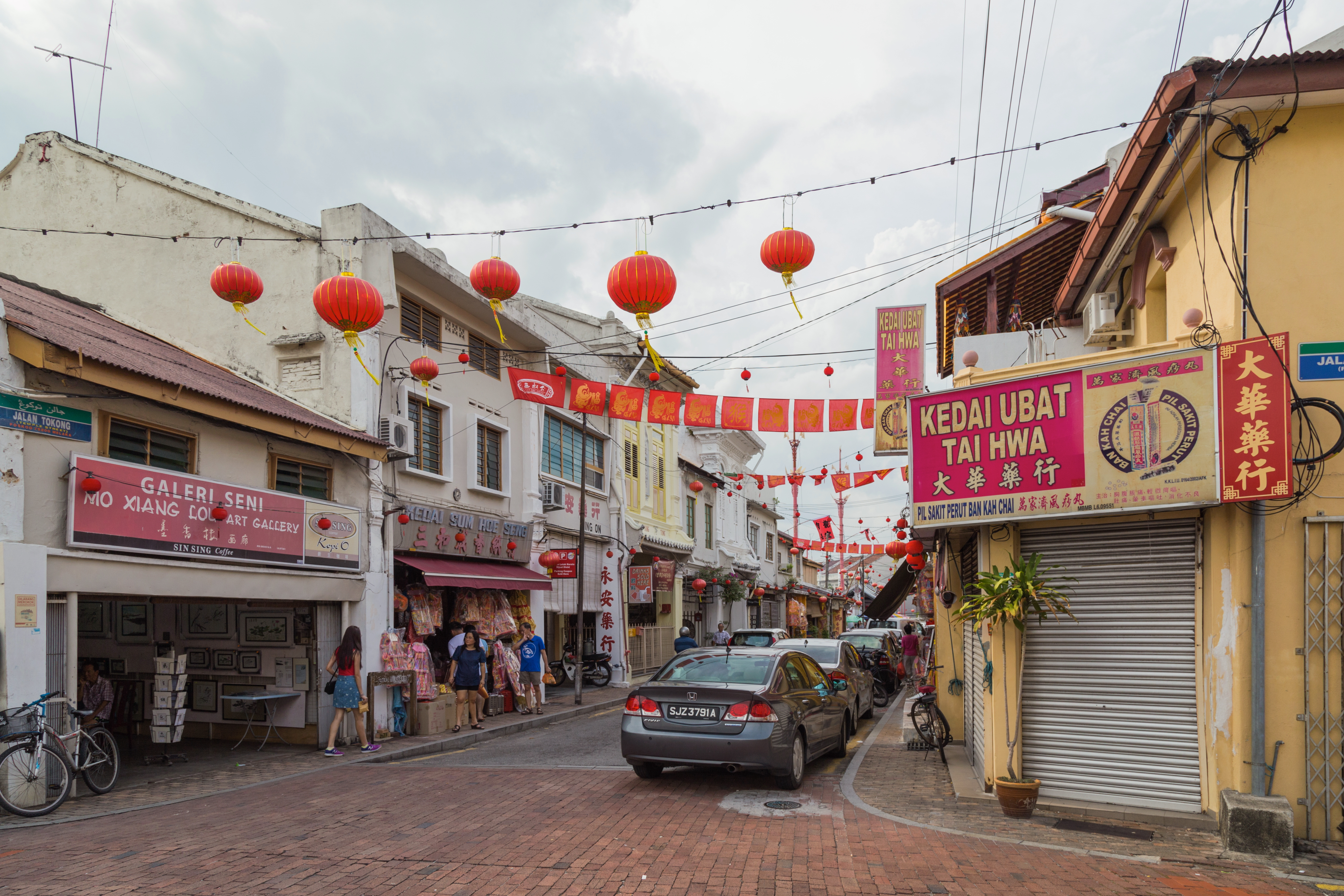 Jalan Tokong (Temple Street) - "the Street of Harmony". Malacca City, Malacca, Malaysia.